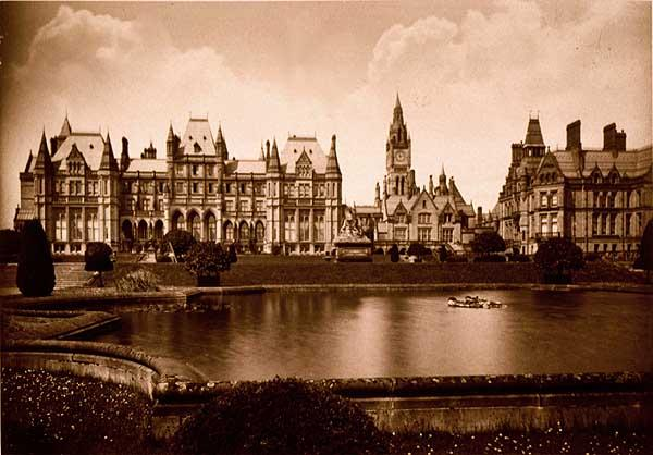 This photo of c.1880 shows the garden front of Waterhouse's Eaton Hall. The main block is on the left and the family wing is at the far right. The clock tower can be seen in the background. The service wing and stables are behind the family wing and to the right of the clock tower. Taken by Francis Bedford (d.1894)